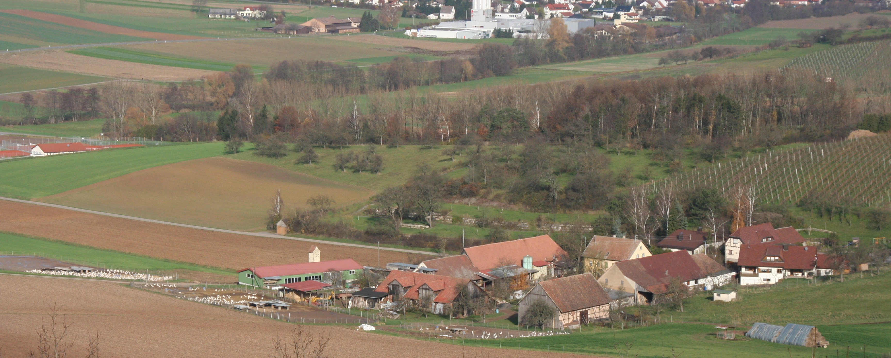 Abstatt-Vohenlohe as seen from Helfenberg castle ruin. In the background parts of Untergruppenbach-Unterheinriet are visible.